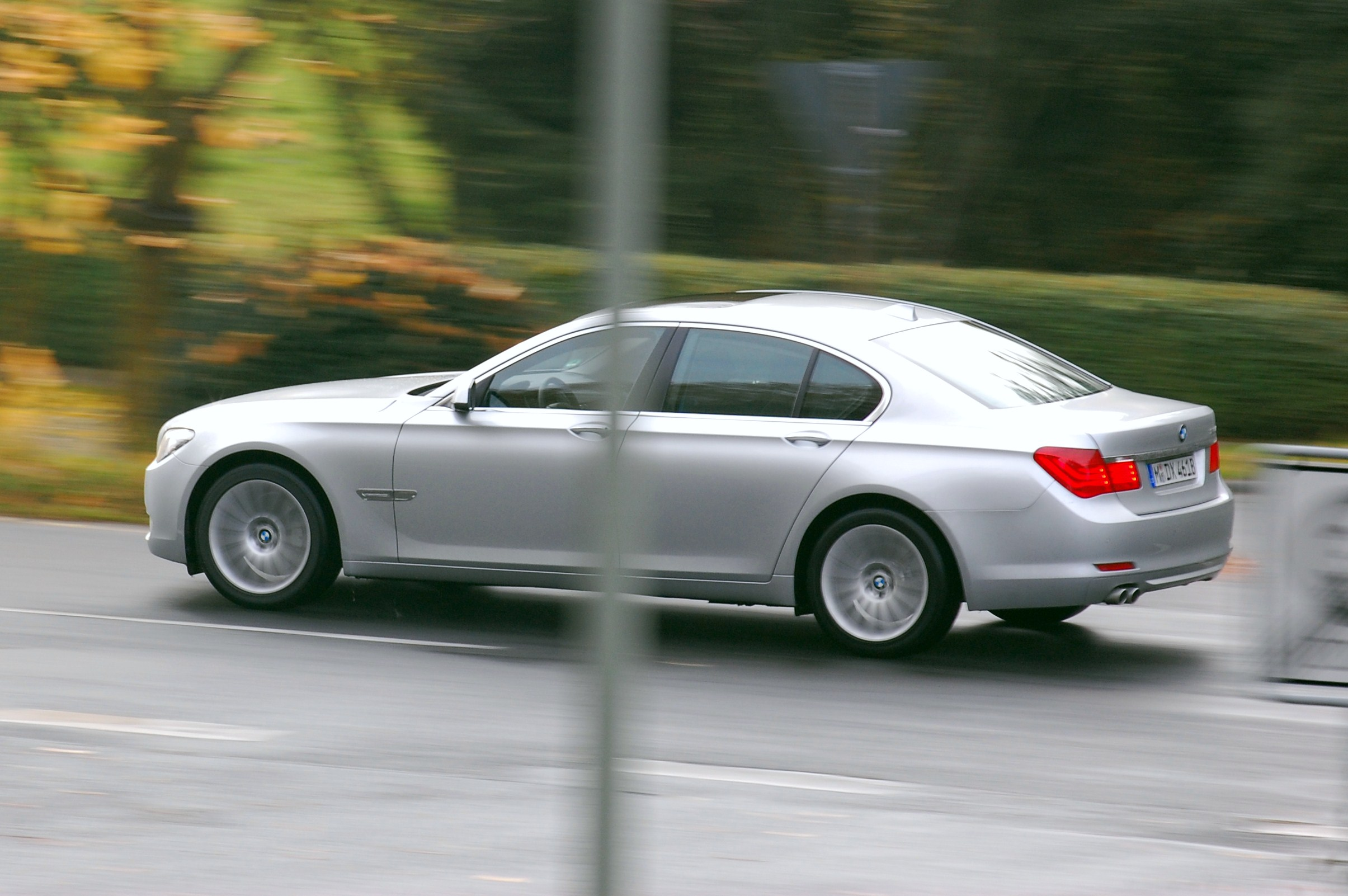 BMW F01